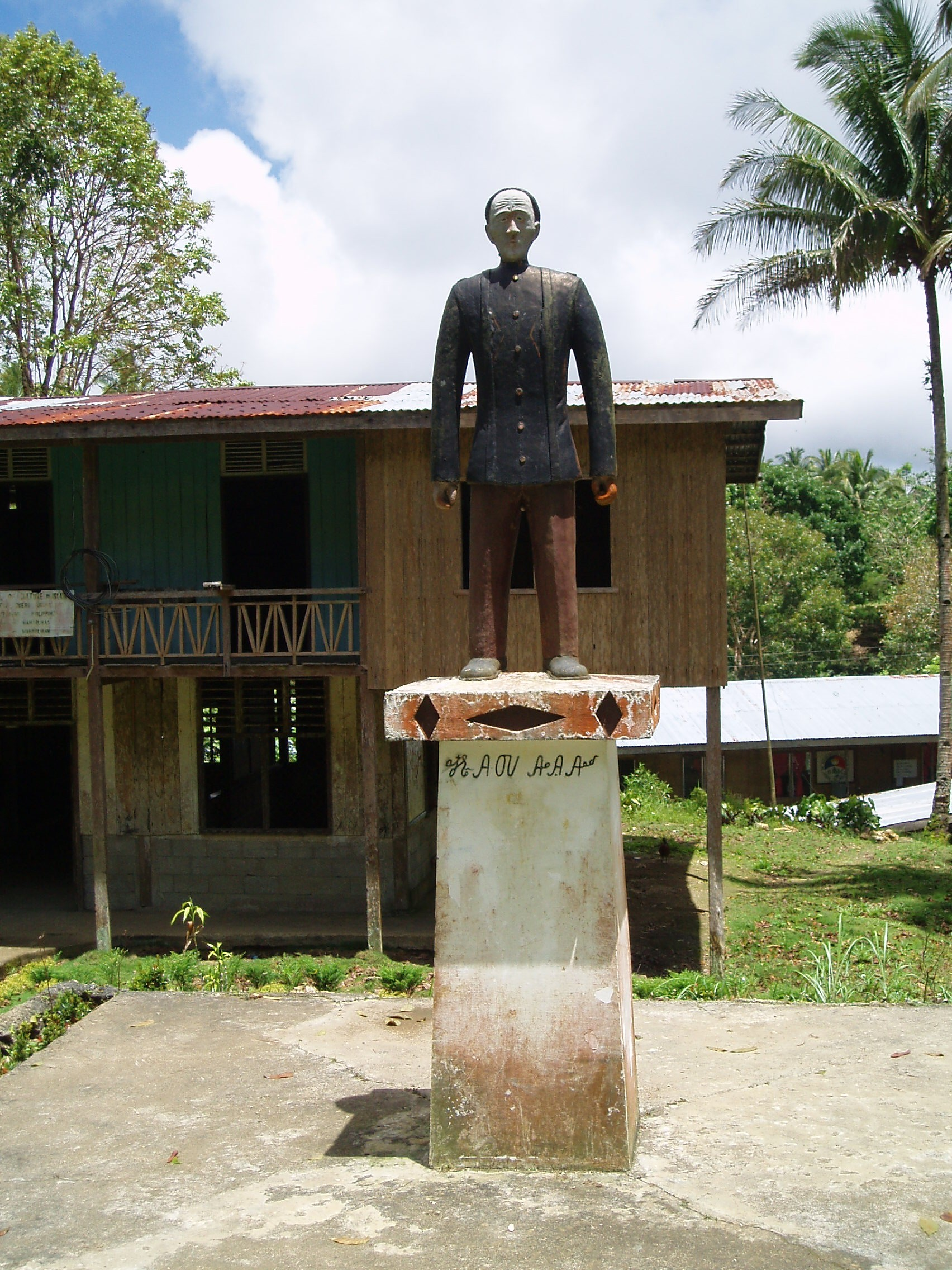 Statue of Mariano Datahan outside the Eskaya cultural school in Taytay (Duero) Bohol, the Philippines